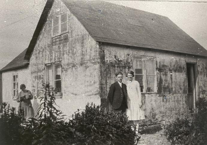 A so-called "Fordkassehus" Ford Box House"), in Hvidovre outside Copenhagen, Denmark. They were self-built house constructed during the severe housing shortage of the 1920s out out of boxes that had been used to transport car parts from America.